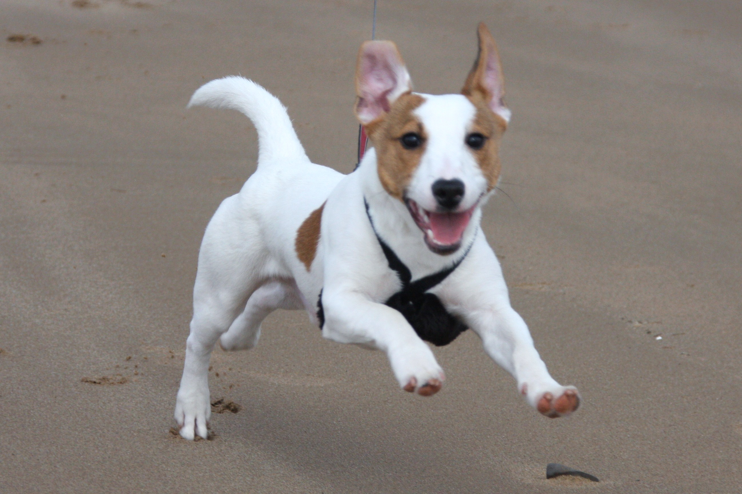 Jack russell with boundless energy